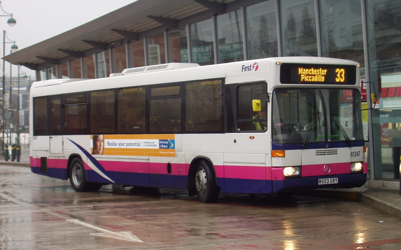 First Manchester bus 61247 (reg. M503 GRY), a 1995 Mercedes-Benz O 405 single-decker with Optare Prisma bodywork, pictured in Eccles, Greater Manchester, UK. It was new to Leicester Citybus, as their fleet no. 503.